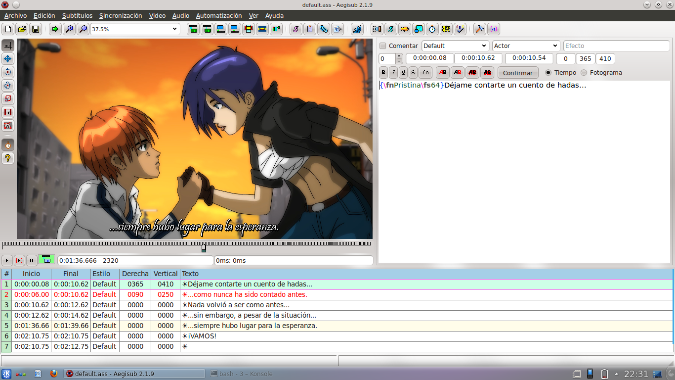 Example of an anime being fansubbed with the program Aegisub. This image is a depiction of how it makes the task of subtitling, and is not really a fansub, but try to recreate the circumstances in which a fansub subtitle an anime with a subtitling application. Parts of the picture are: to the project Aegisub (the program in example), under BSD License, to the project KDE (the desktop environment), according to their licensing policy, under CC-BY-SA 3.0 license and/or GPL or GFDL, to the project Morevna (the anime), which allowed to use a picture of their free movie under CC-BY 3.0 license, according to this answer received after a request for permission sent by e-mail.